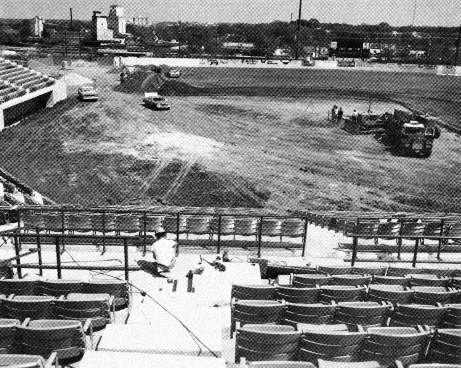 Herschel Greer Stadium in Nashville, home of the Nashville Sounds Minor League Baseball team of the Southern League, on April 22, 1978, four days before the first game.